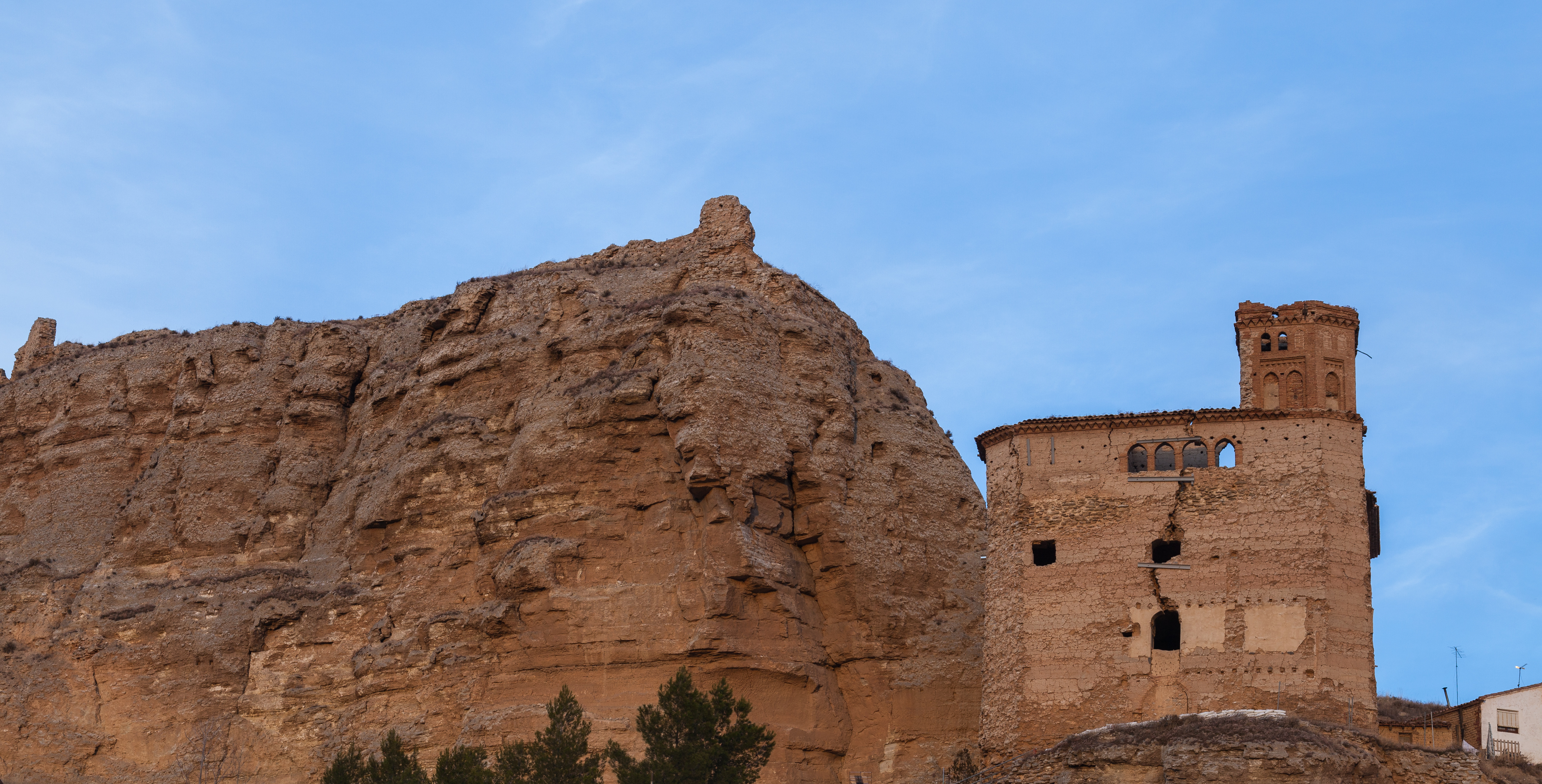 Castle of Maluenda, Zaragoza, Spain